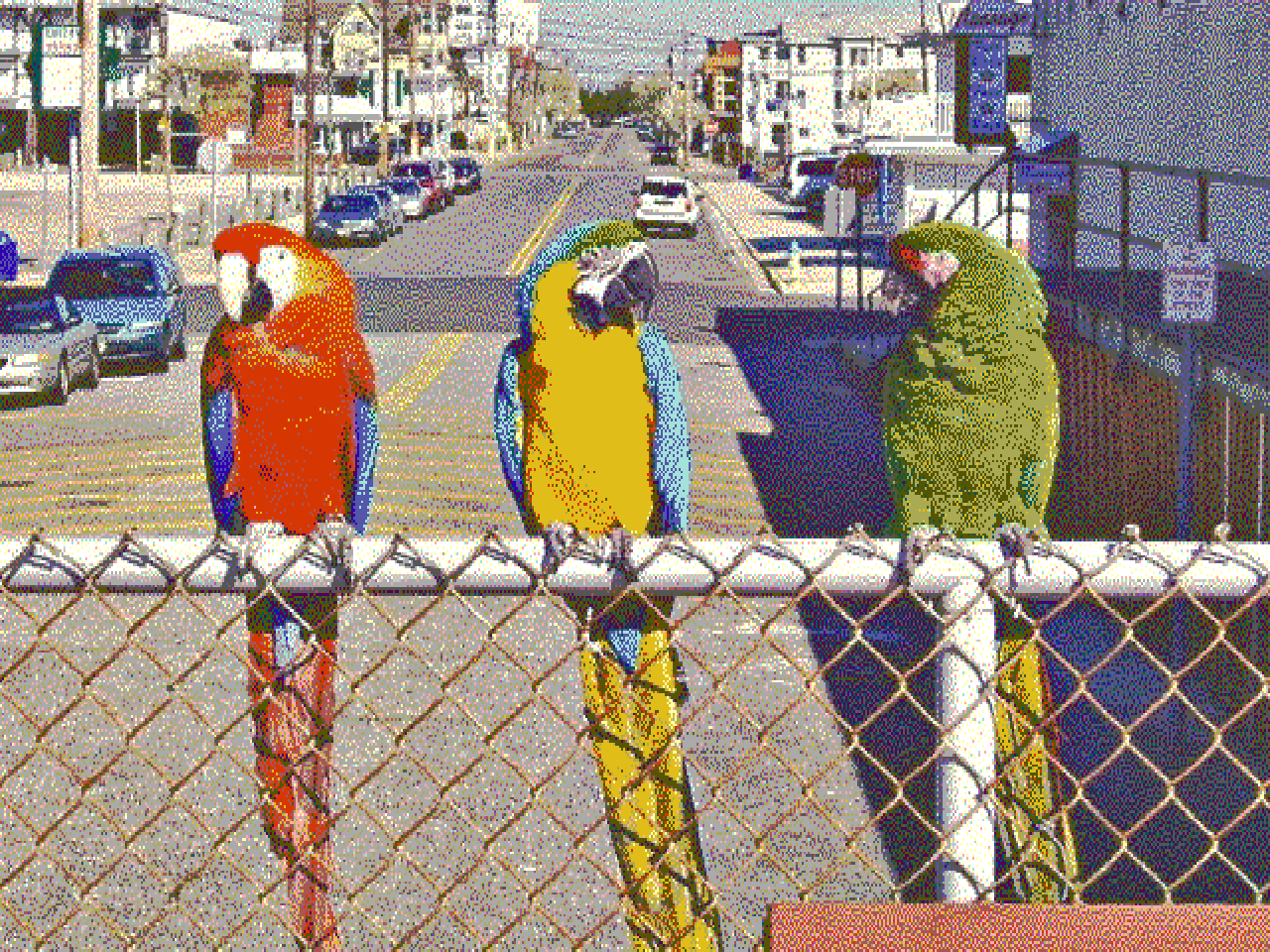 Simulated image as displayed using EGA 640x350 graphics resolution and color abilities, corrected for aspect ratio. The purpose is to compare with the same image as displayed on other early PC display adapters. A skilled artist would be able to get better results working around each adapter's limitations.